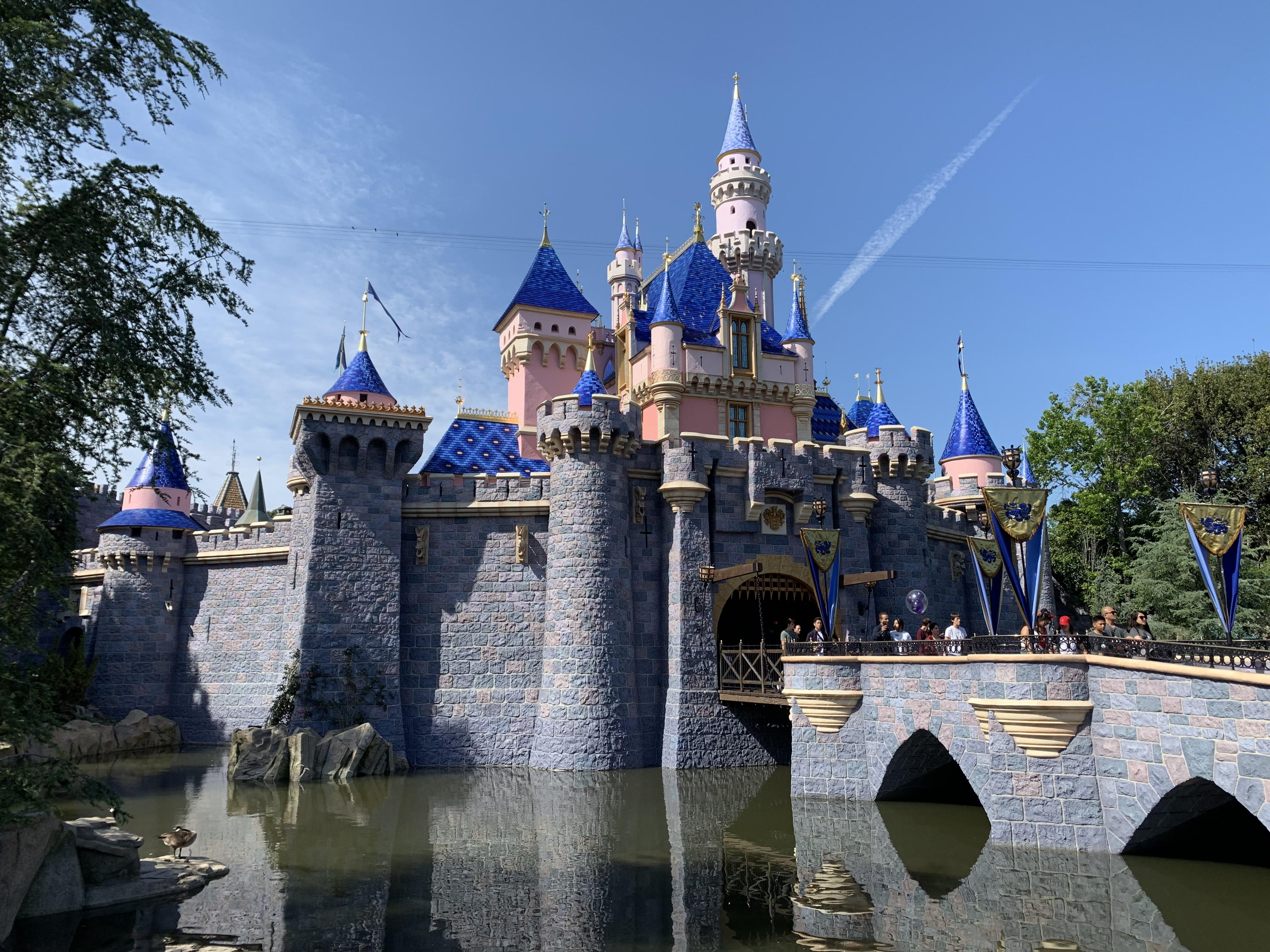 Sleeping Beauty Castle in 2019 after refurbishment